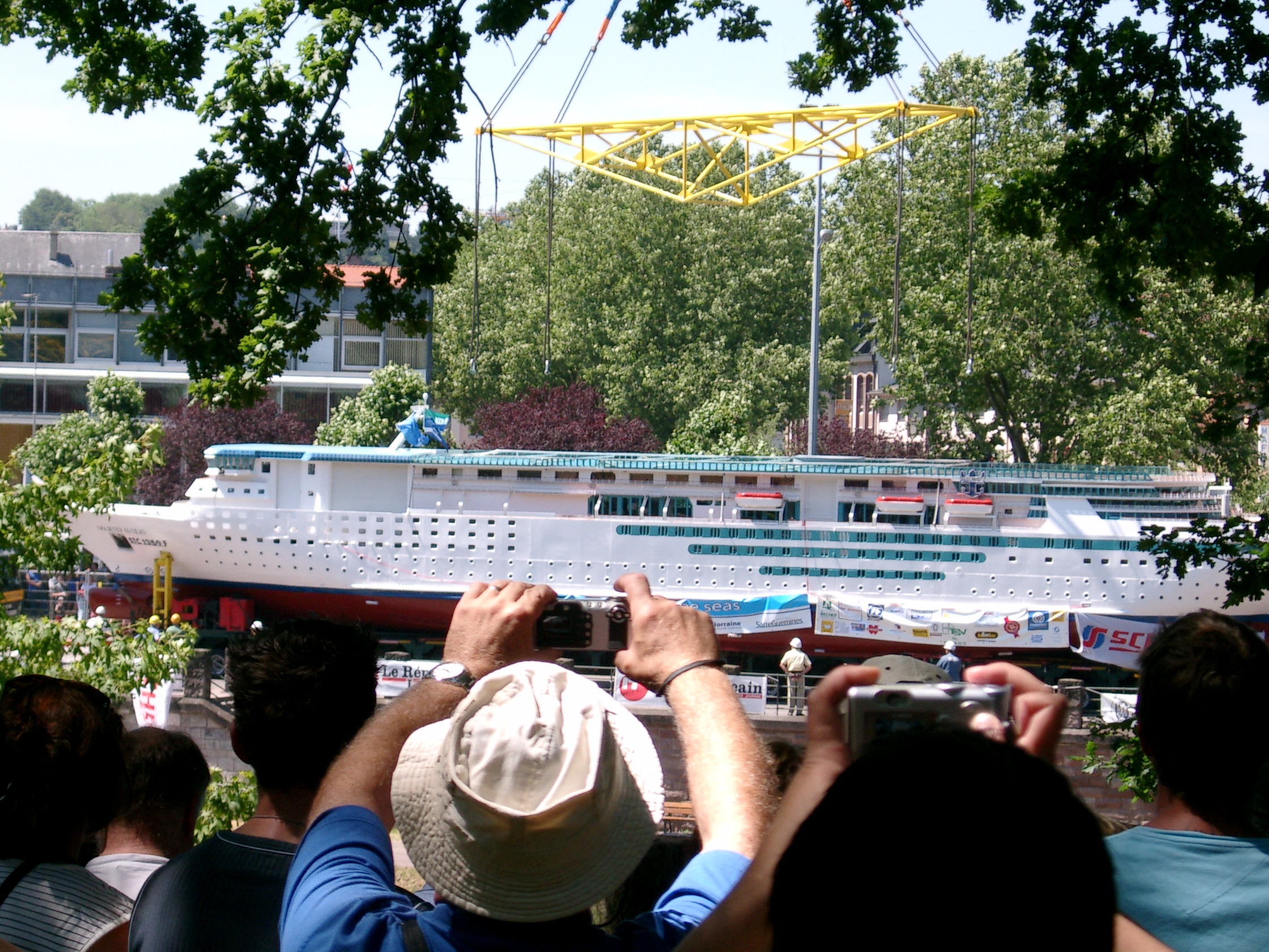 Majesty of the Seas (mini) Picture taken by myself User:Subcommandante